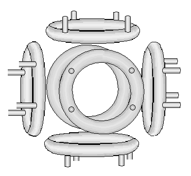 This is a drawing of the electromagnets in the WB6 polywell. This design changes between machine (e.g. number of rings, size, spatial arrangement and connections). This drawing is based off of photos from "High Energy Electron Confinement in a Magnetic Cusp Configuration" By Jaeyoung Park, et al. 2014 Other information This is a drawing of the electromagnets in the WB6 polywell. This design changes between machine (e.g. number of rings, size, spatial arrangement and connections). This drawing is based off of photos from "High Energy Electron Confinement in a Magnetic Cusp Configuration" By Jaeyoung Park, et al. 2014